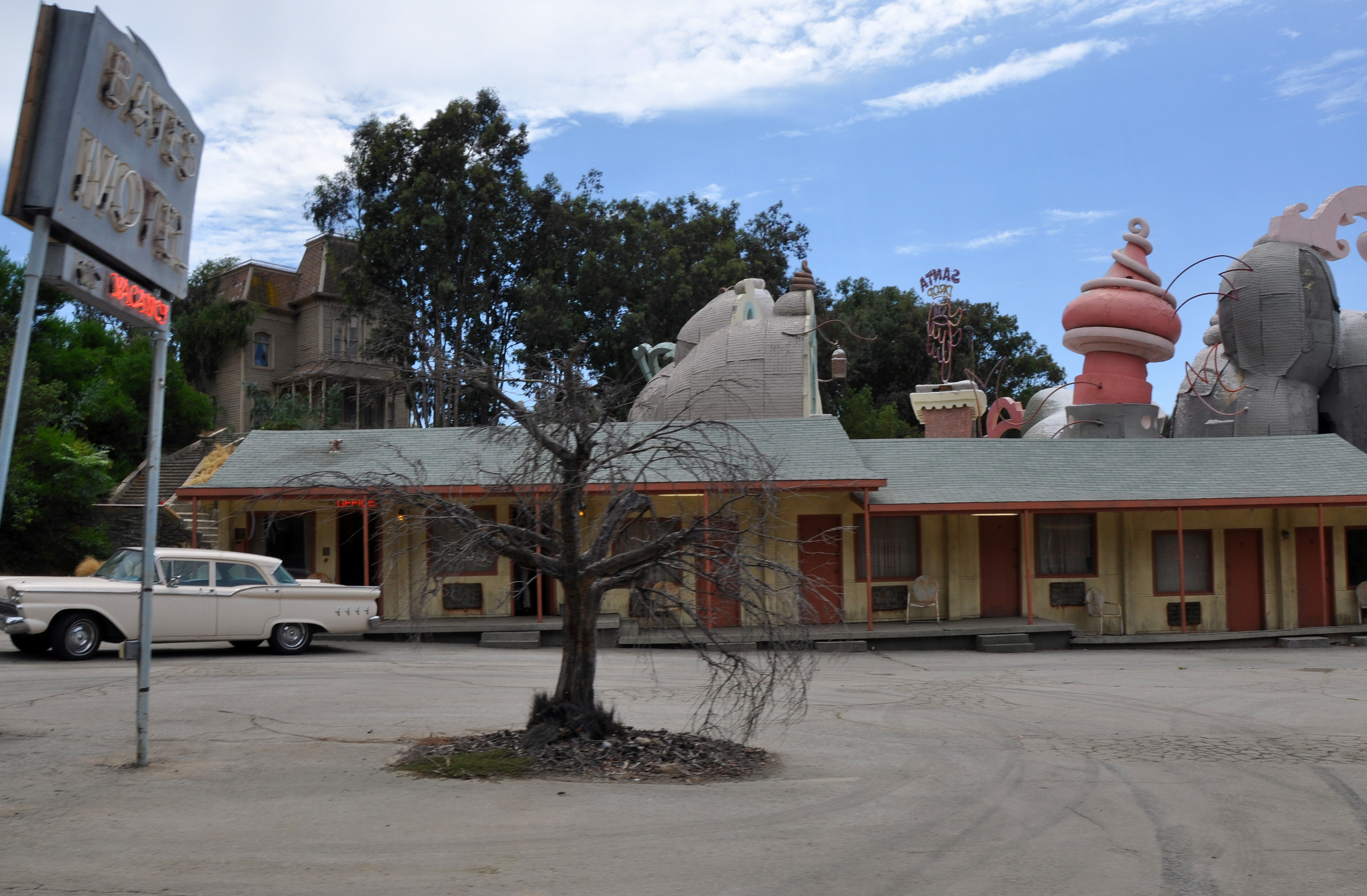 The Bates Motel. Set of the movie Psycho by Alfred Hitchcock at Universal Studios in Hollywood, California.